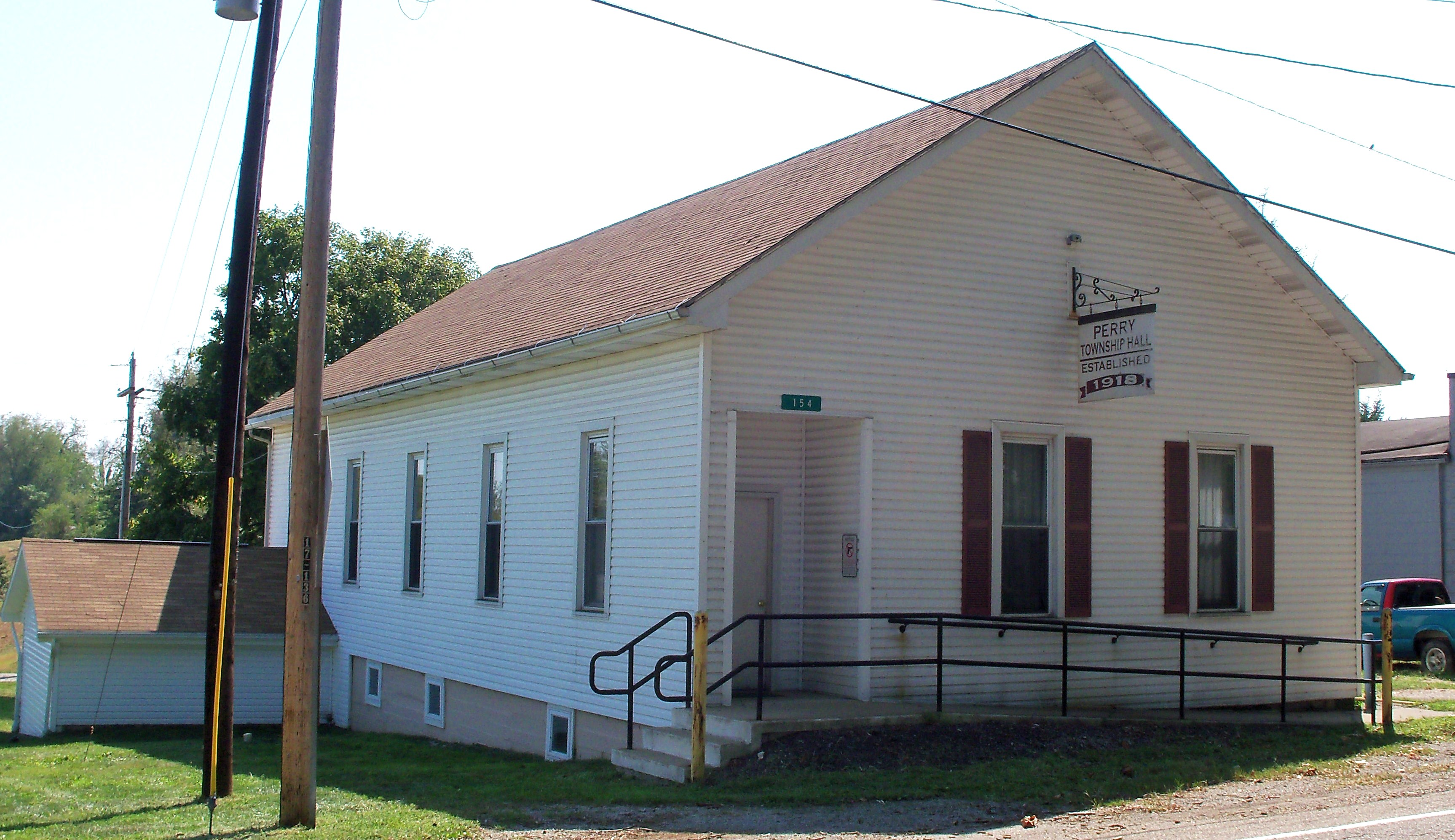 The offices and meeting hall of the trustees of Perry Township, Carroll County, Ohio on Ohio State Route 164 east of Ohio State Route 332.